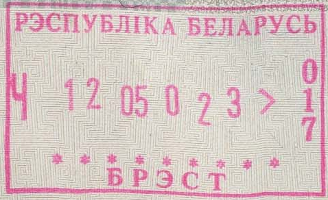 Exit stamp for Belarus